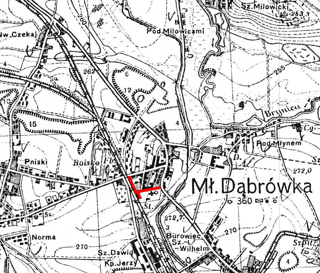 Map of Niepodległości Street in Katowice-Dąbrówka Mała. Map from 1933.